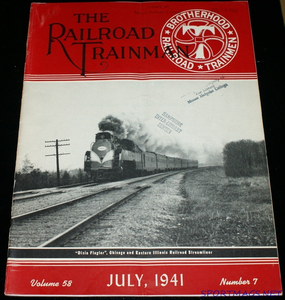 Cover of The Railroad Trainman (journal of the Brotherhood of Railroad Trainmen) of July 1941 showing the Dixie Flagler. See also File:Dixie Flagler 1941.JPG